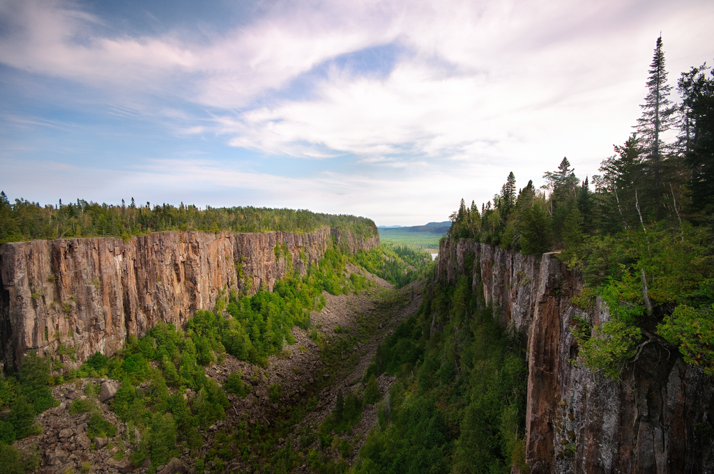 This file is a picture of Ouimet Canyon, which is a large gorge in the Canadian province of Ontario.